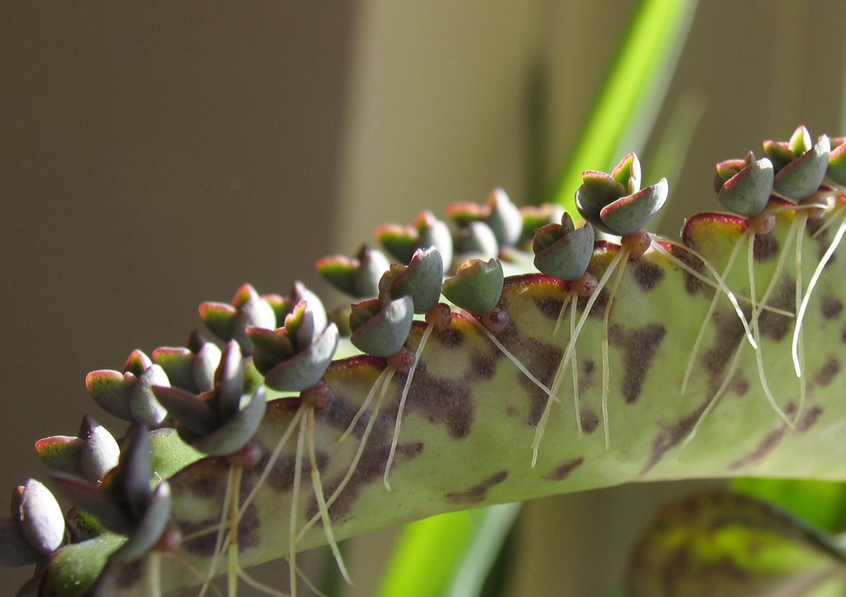 Closeup of a Bryophyllum daigremontianum. Photo was taken by my self with Canon PowerShot Pro 1